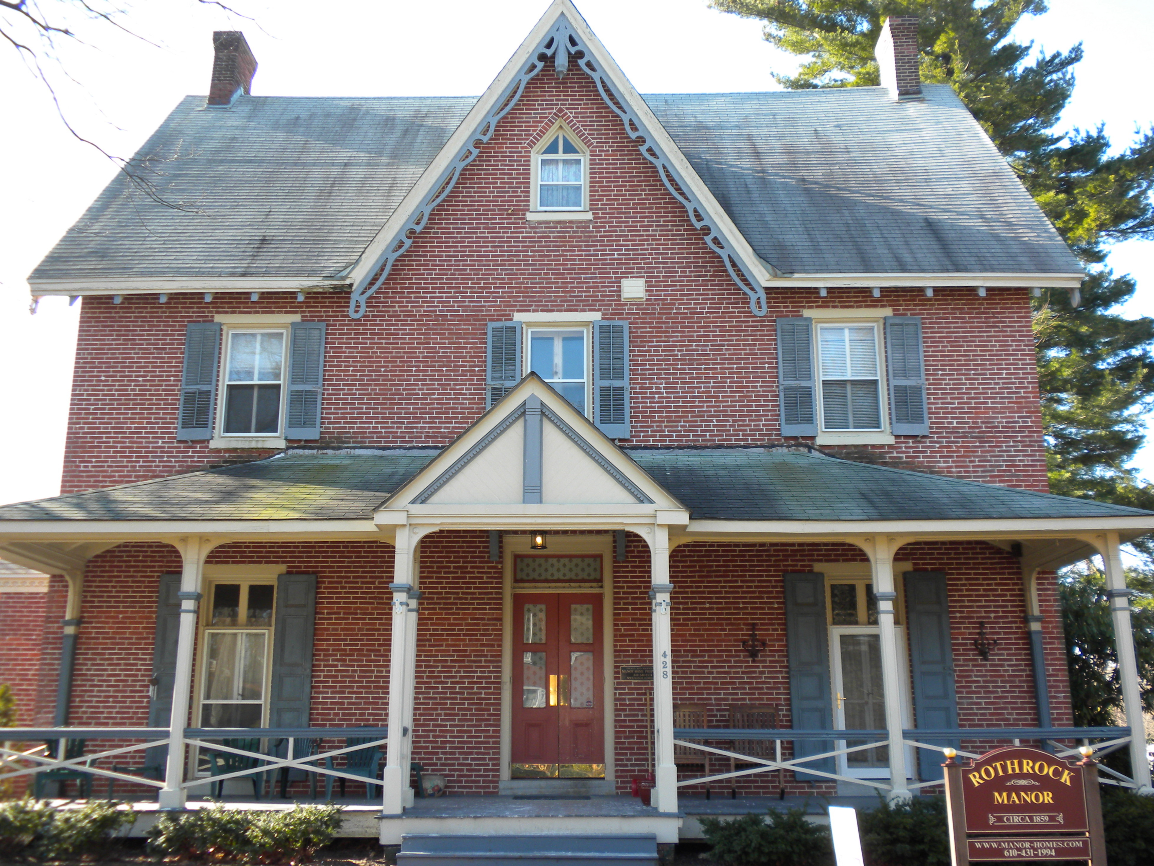 Joseph Rothrock House, 428 North Church Street, West Chester, PA. On the NRHP. I donate this photo to the public domain.